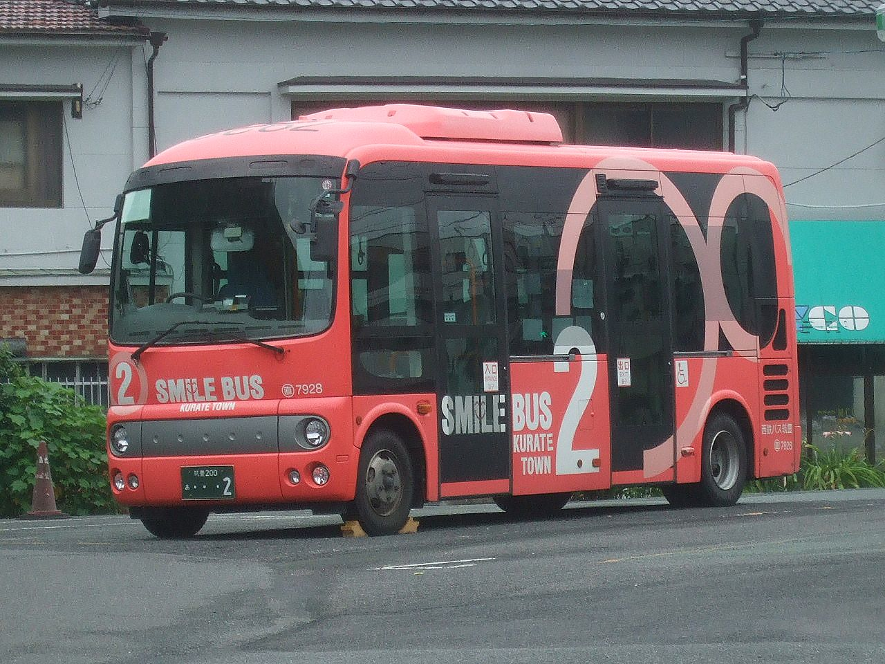 Company:Nishitetsu Bus Chikuho Use:transit bus(community bus) Car license:FOC200 A 2 Belongs to:Nogata branch Code:7928 Chassis manufacturer:Hino Type:Poncho Coachbuilder:J-BUS Location:At Miyata Bus Terminal, Miyawaka City, Fukuoka, Japan.